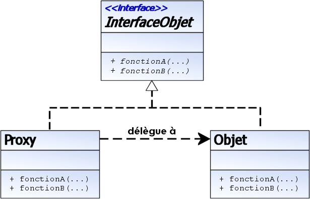 UML Class Diagram of the Proxy Design Pattern